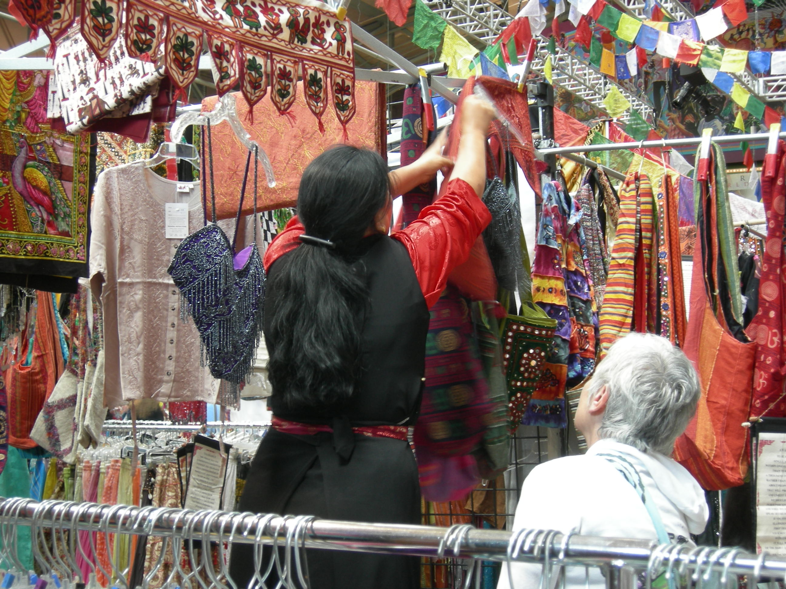 Tibetan crafts for sale, Center House, Seattle Center, Seattle, Washington during TibetFest (part of the Festál series of festivals at Seattle Center). This picture was cropped and sharpened.